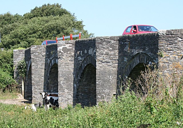 Bridge over the River Amble at Trewornan, Cornwall. Cattle are shelter ingfrom the July heat in a dry arch of the bridge.